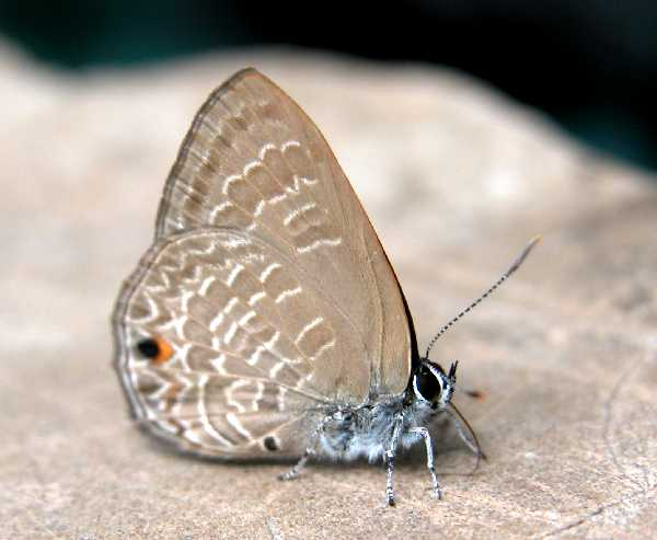 Ciliate Blue (Anthene emolus) taken at Jairampur, Arunachal Pardesh, India.